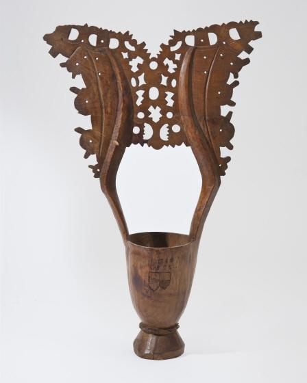 A so-called Kronkåsa (Crown Cup)